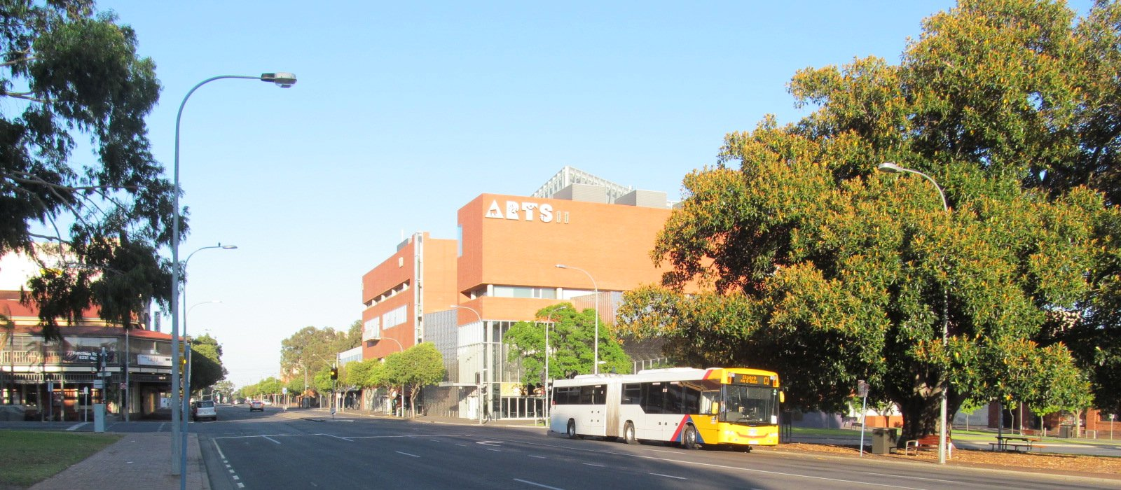 Currie Street, looking west from Light Square, Adelaide, early on a Sunday morning.